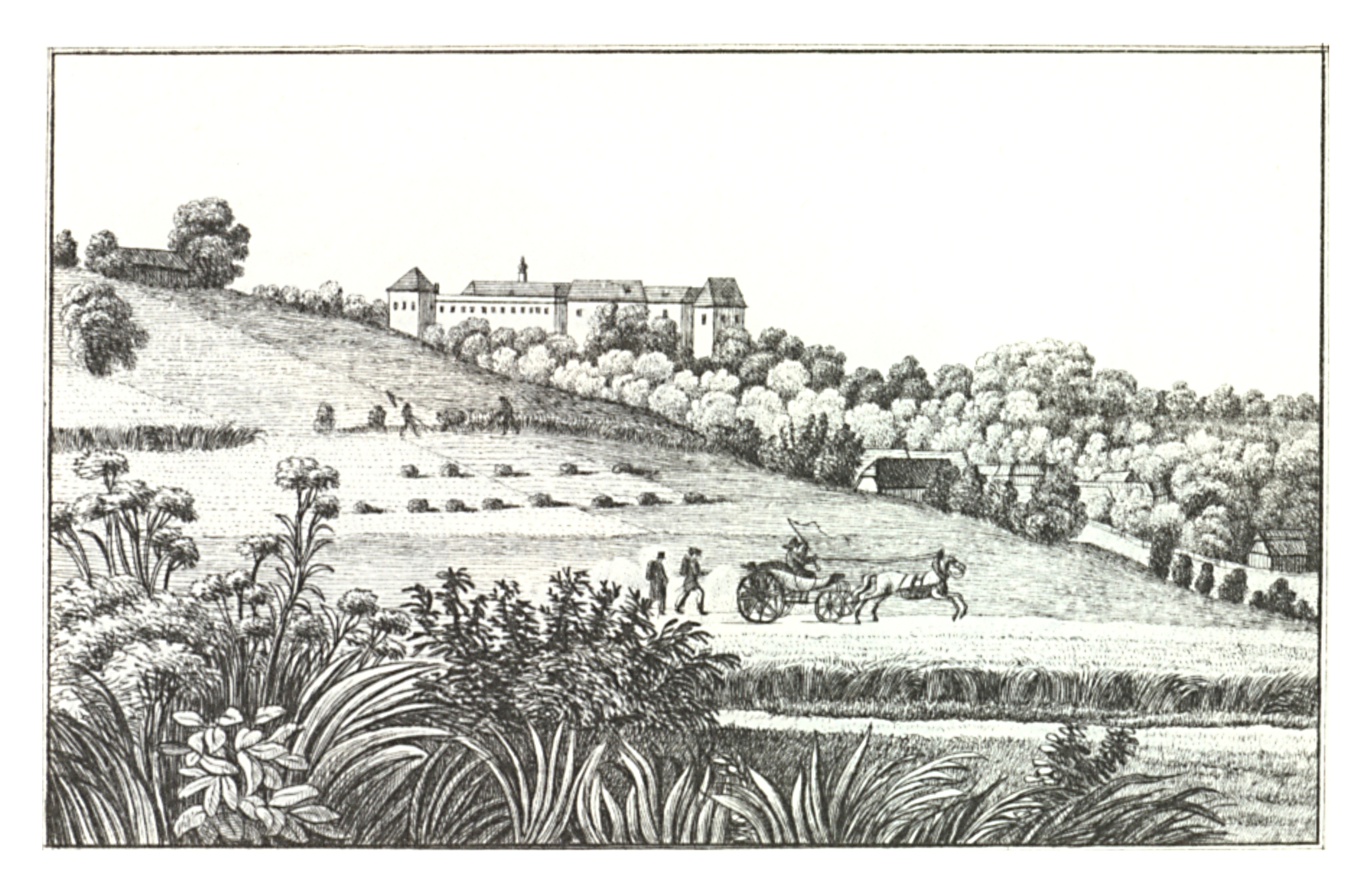 J. F. Kaiser - lithographirte Ansichten der Steyermärkischen Städte, Märkte und Schlösser Graz, 1825 Joseph Franz Kaiser (1786–1859) Alternative names J. F. KaiserDescriptionAustrian printer and editorDate of birth/death 11 March 1786 19 September 1859Location of birth/death Graz (Styria) GrazAuthority control : Q1499963 VIAF: 30629353 ISNI: 0000 0000 3083 0153 LCCN: n87141671 GND: 129880159 NLP: A24960305 WorldCat creator QS:P170,Q1499963 Scanprojekt Community Projektbudget 2012 This scan or this PDF-file was created within the GLAM-project Bookscanning, supported by Wikimedia Germany and Wikimedia Austria as a part of the community-project to capture books, documents and pictures which are not eligible to copyright or for which the copyright has expired. This document describes or depicts an object which is located in Austria today. Send requests for uncompressed scans to Hubertl. This work is in the public domain in its country of origin and other countries and areas where the copyright term is the author's life plus 100 years or less. You must also include a United States public domain tag to indicate why this work is in the public domain in the United States. This file has been identified as being free of known restrictions under copyright law, including all related and neighboring rights.